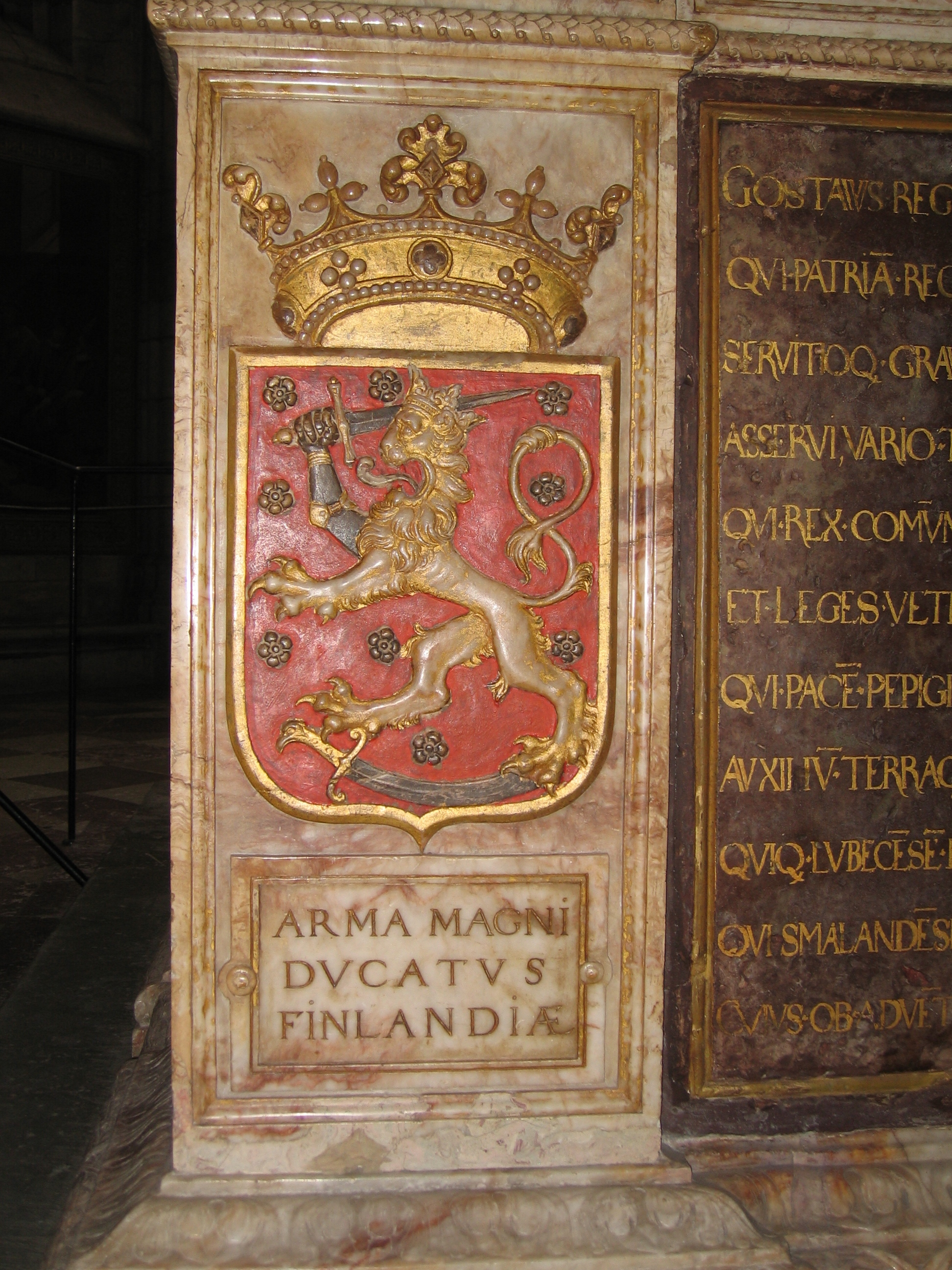 Photograph of the Coat of arms of Finland on the tomb of Gustavus I (Uppsala cathedral, Sweden)